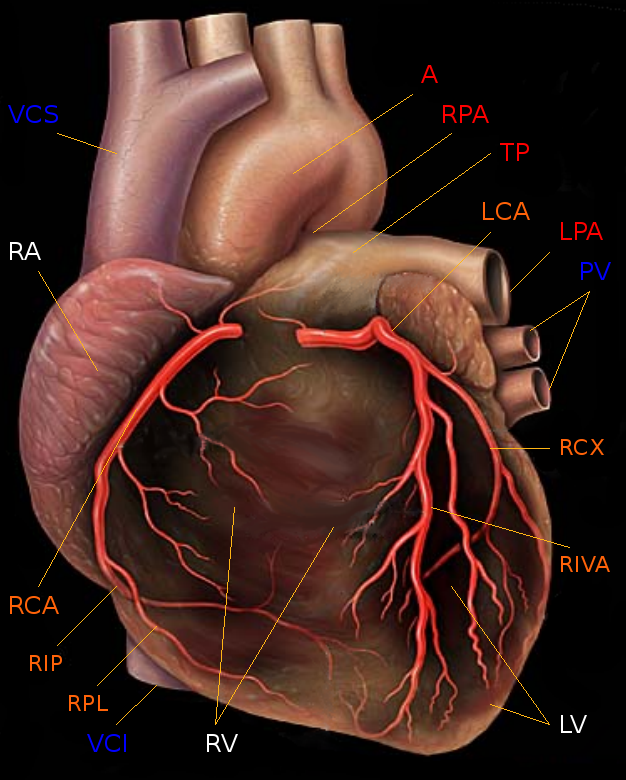 heart with coronary arteries - ATTENTION: The origin of the coronary arteries is incorrectly shown in this drawing at the root of the pulmonary arteries (TP) and not in the area of the aortic root (A)!